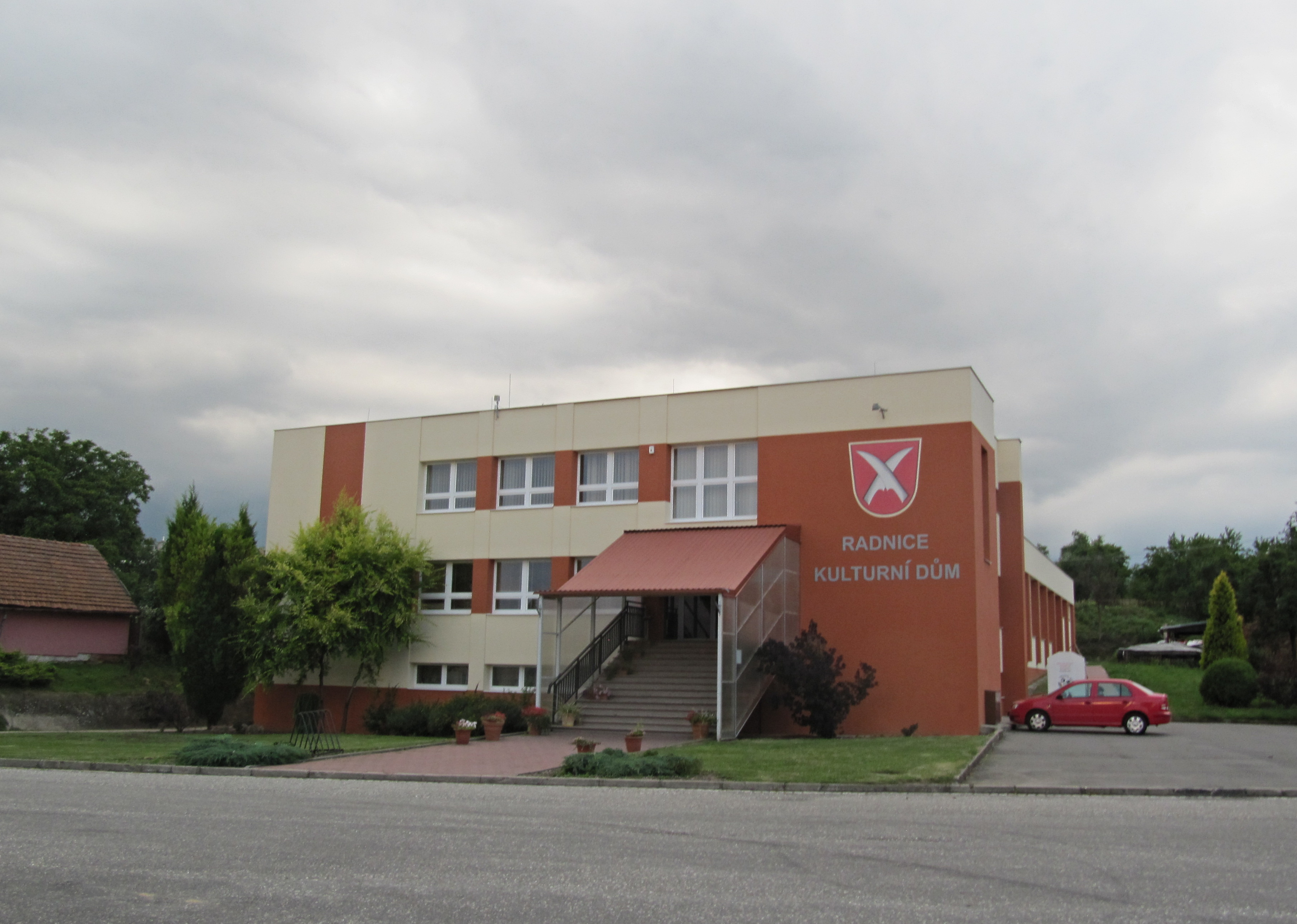 Pačlavice, Kroměříž District, Czech Republic.